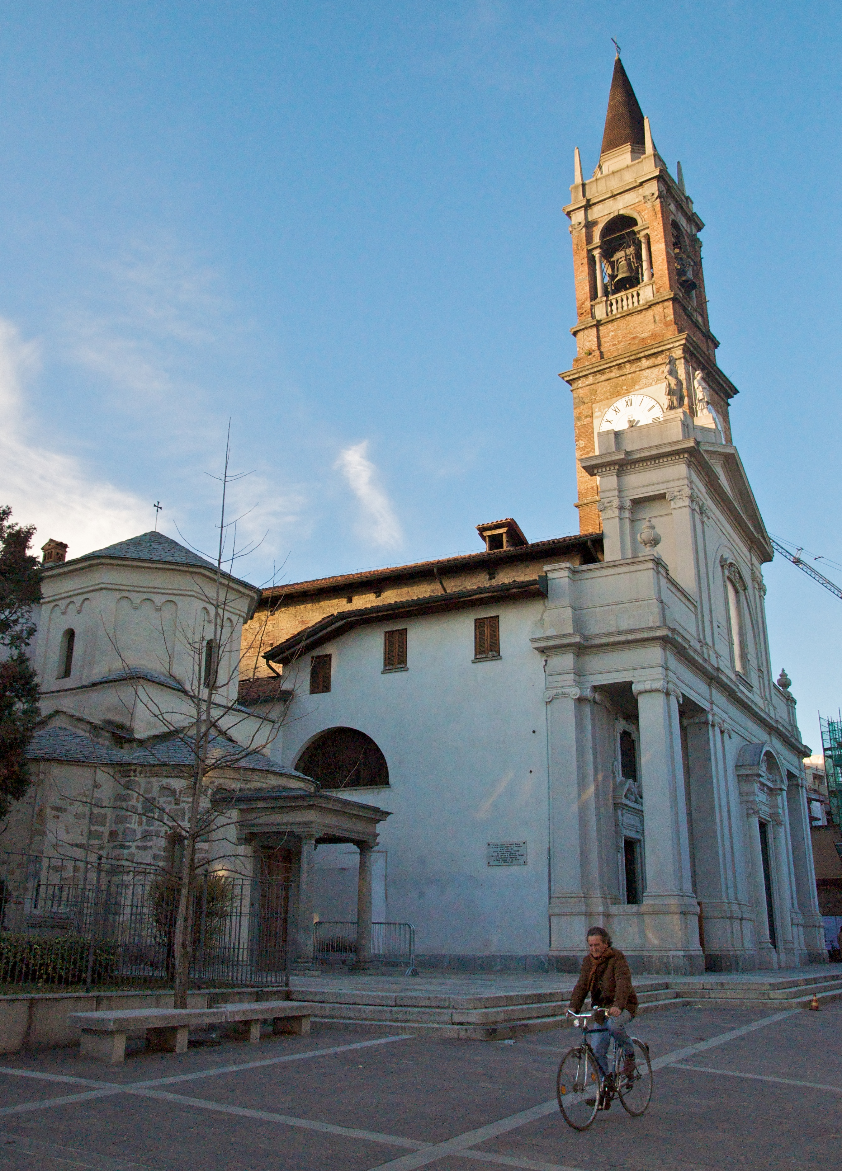 Santo Stefano Church and San Giovanni Battista baptistery in Mariano Comense (Como) Italy